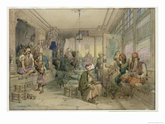 Romania, Balkans, TurkeyAuthority control : Q3675462 VIAF: 2741854 ISNI: 0000 0000 8082 574X ULAN: 500119781 LCCN: n85197102 GND: 131791583 WorldCat creator QS:P170,Q3675462 A Coffee House Constantinople